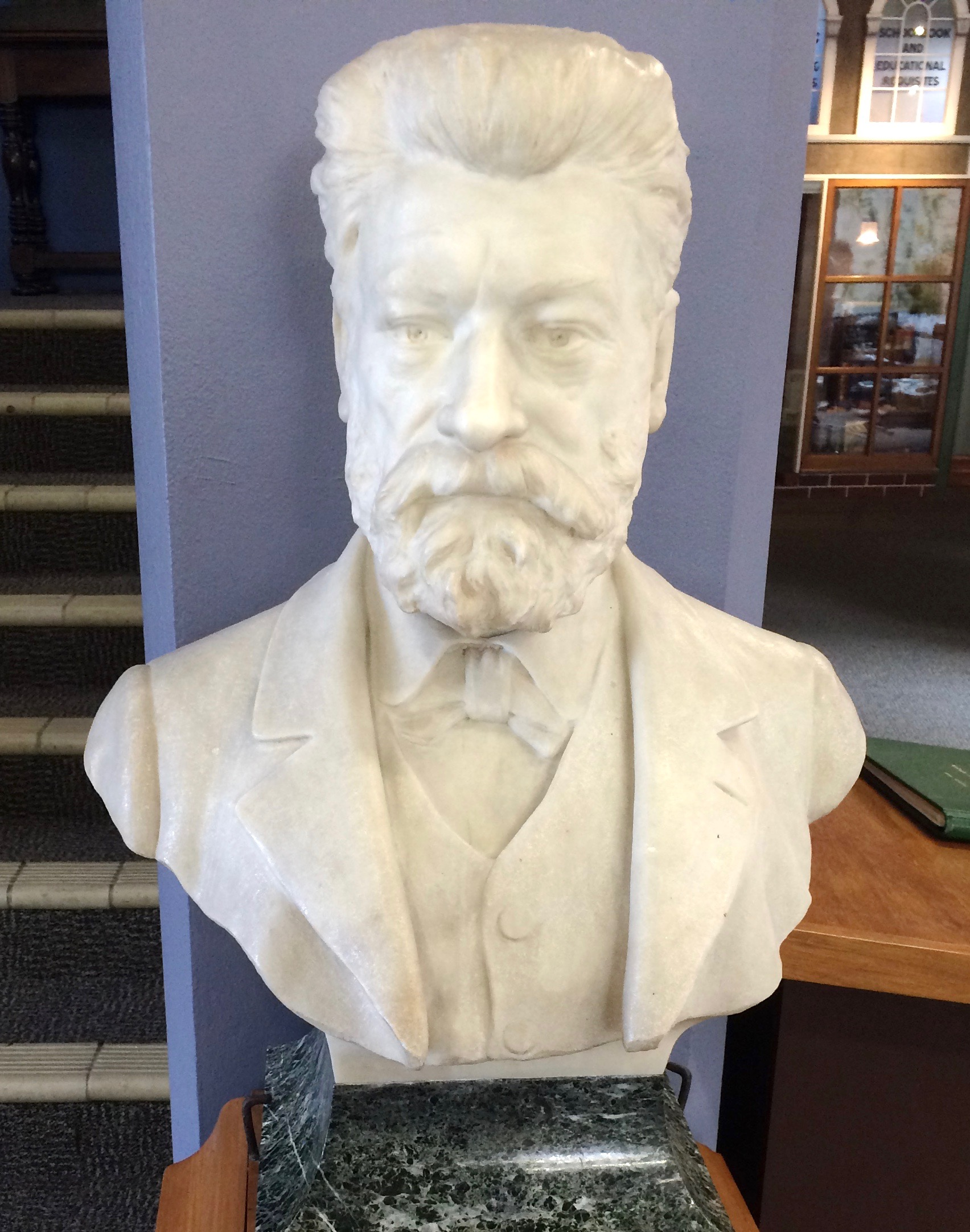 Bust of Samuel Drew, founder of the Whanganui Regional Museum